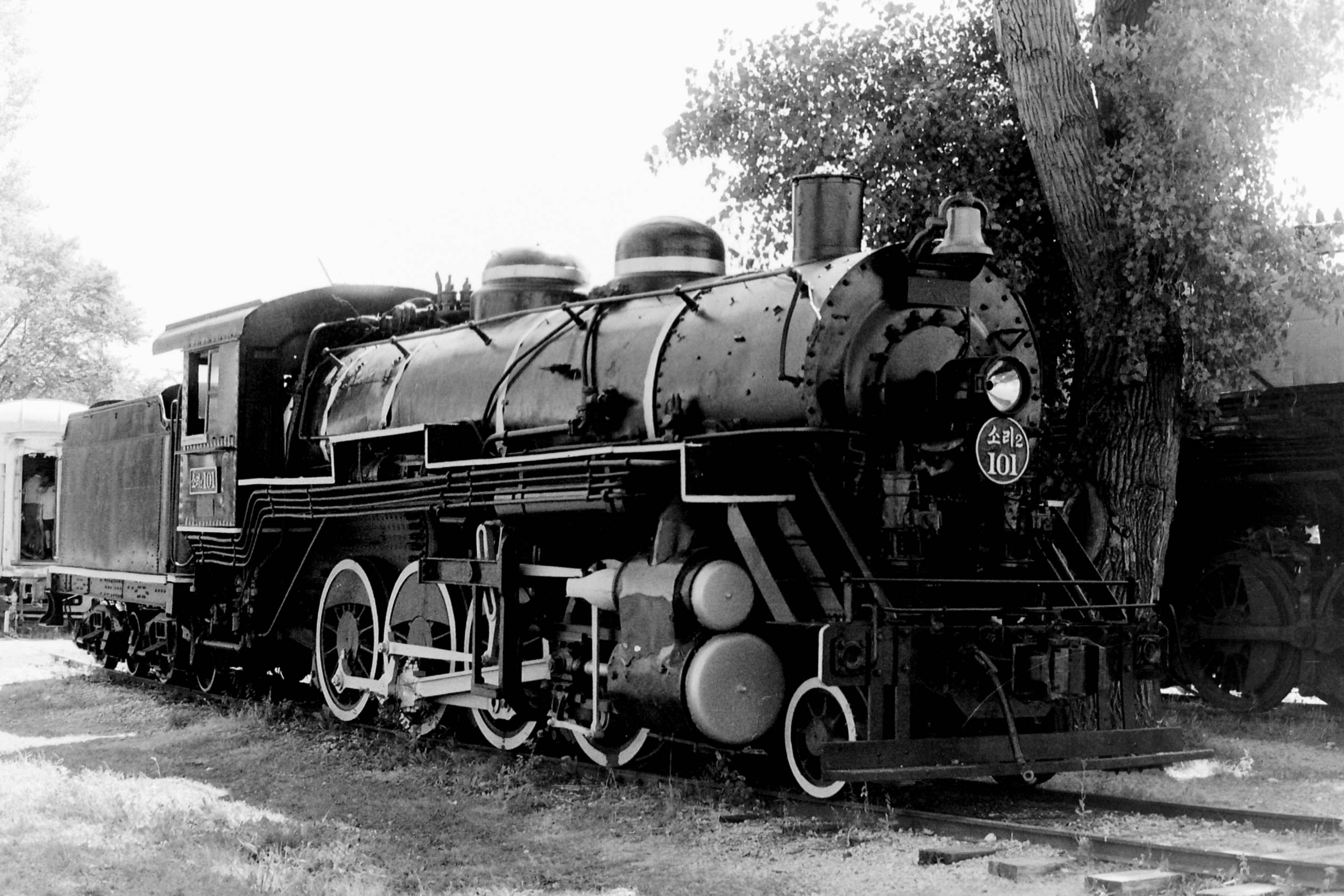 U.S. Army 2-8-0 No.101 General Pershing, built by Baldwin in 1916, at Green Bay Railroad Museum, 8/70. 150 of these standard US Army Consolidations were built for service in WWII and Korea, where No.101 stayed until withdrawn when it was shipped to the USA for preservation.